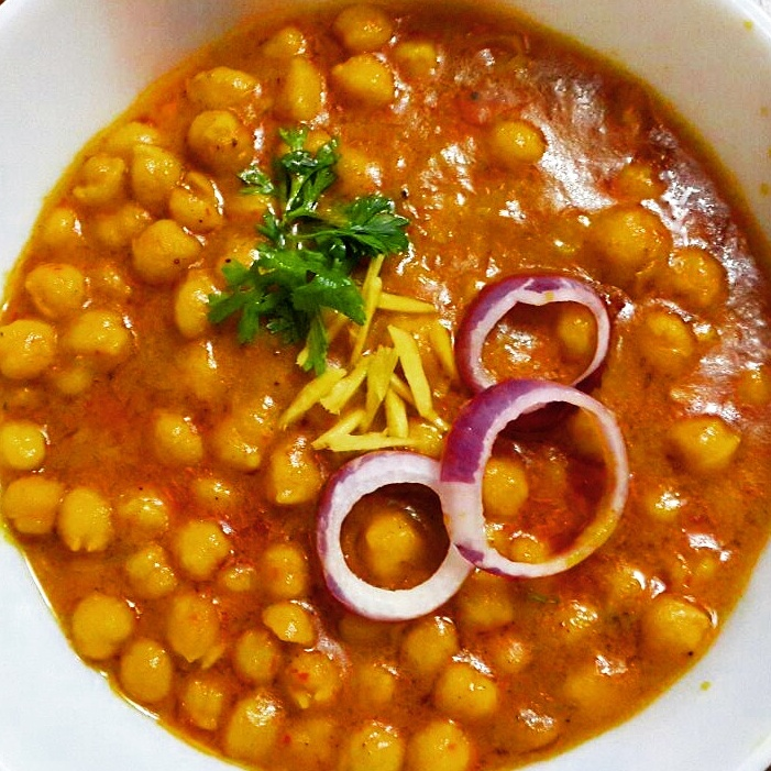 Indianfood, Indiancurry